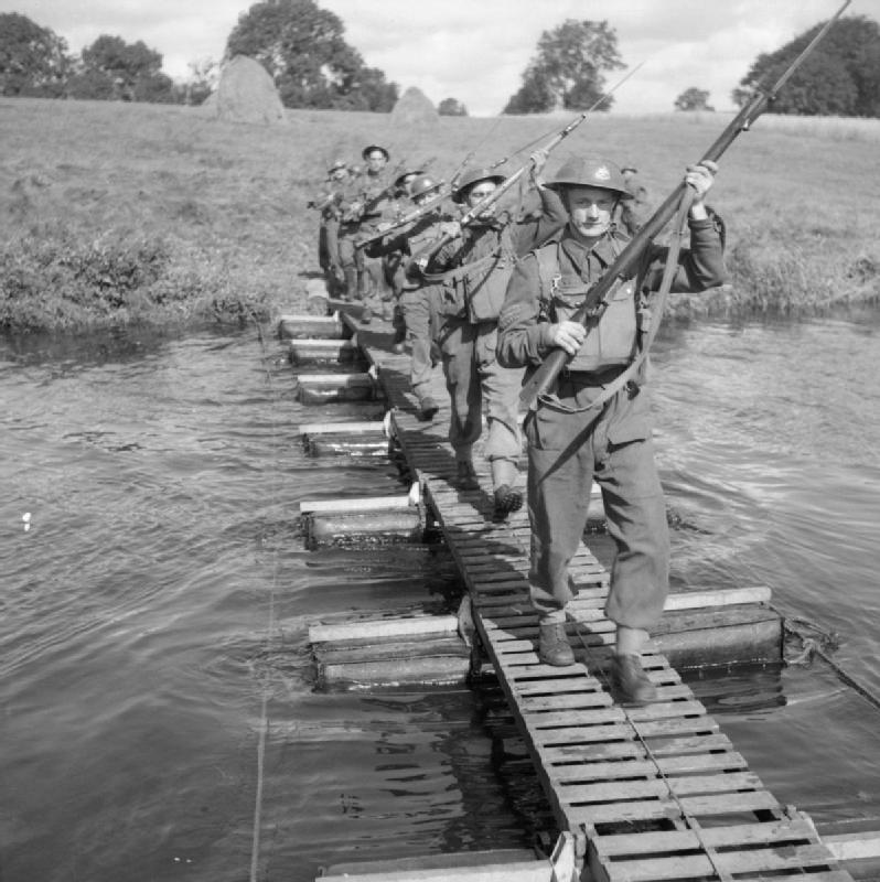 The British Army in the United Kingdom 1939-45 Men of the 8th Sherwood Foresters cross a river using a small kapok pontoon bridge, Dunadry in Northern Ireland, 28 August 1941.